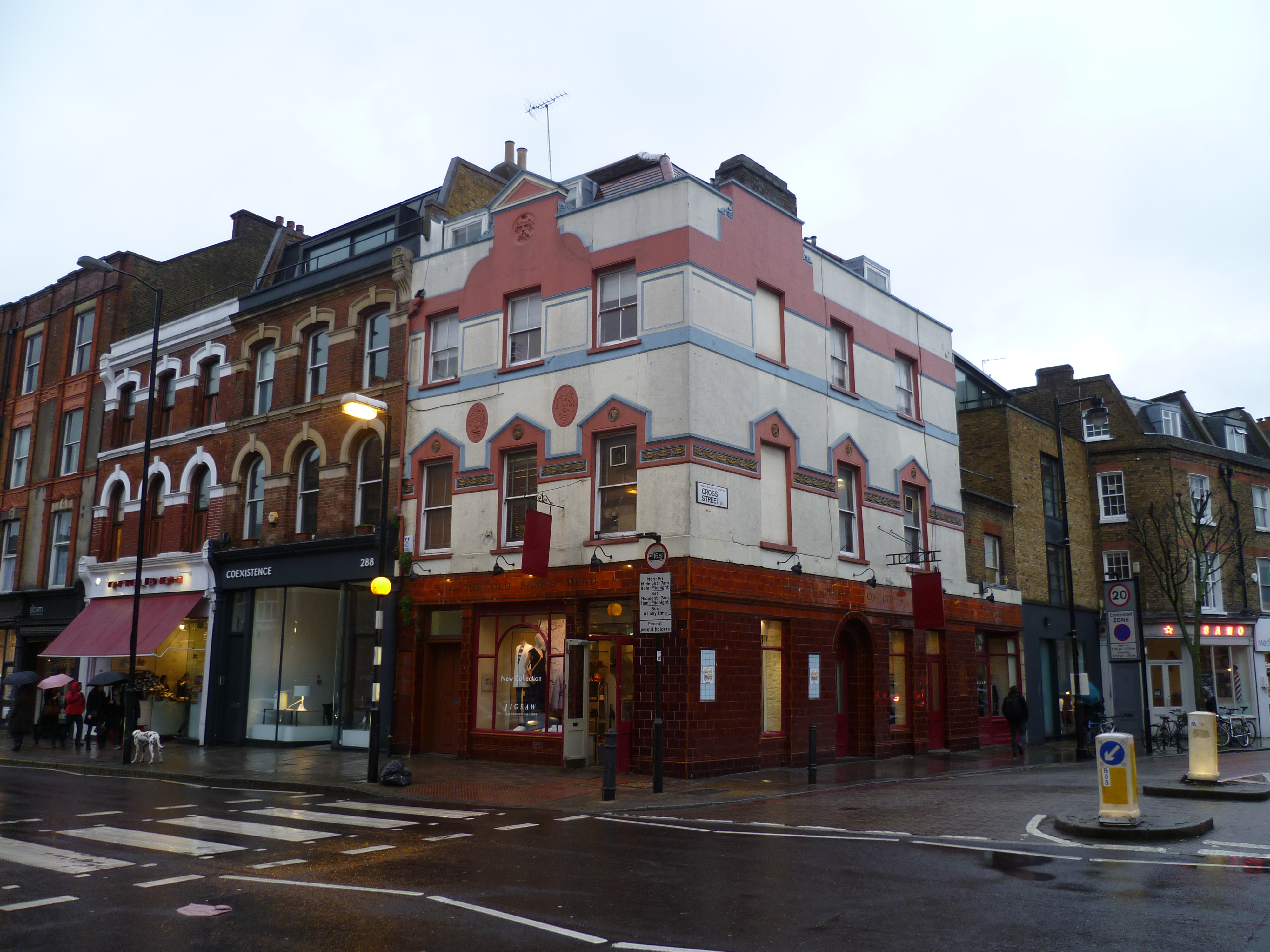 Islington